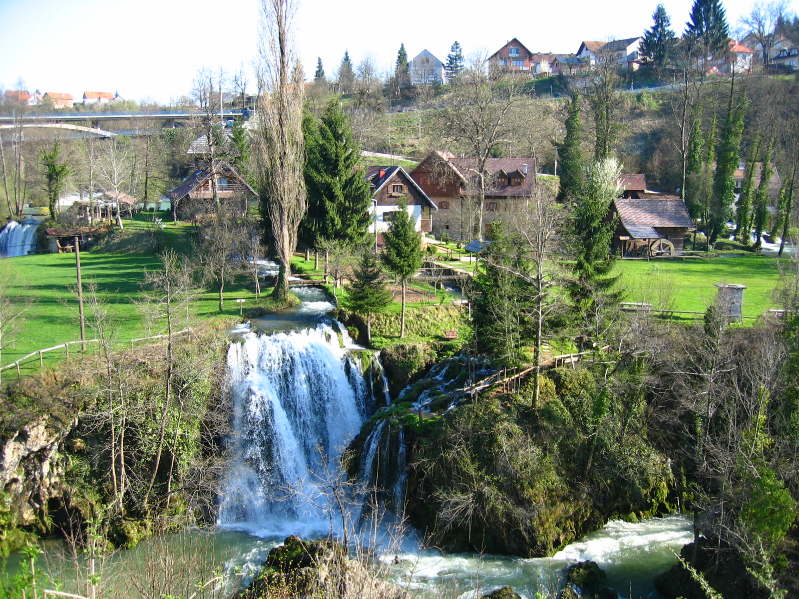 Rastoke, Slunj, Croatia. Waterfalls falling into Korana river. Picture taken in April 2006.